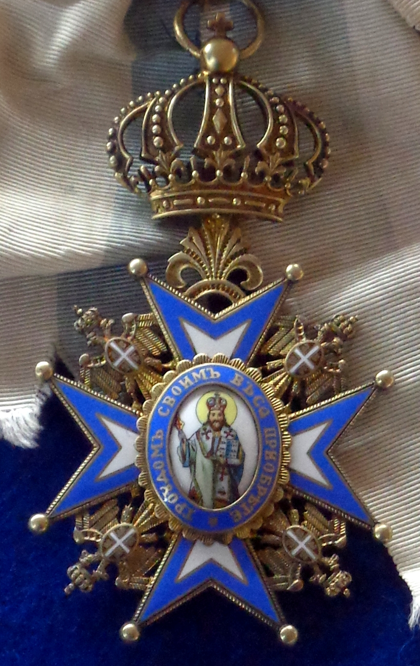 Order of Saint Sava, badge of Grand Cross, c.1890. Kingdom of Serbia. The exhibition of the Tallinn Museum of Orders of Knighthood, Estonia.